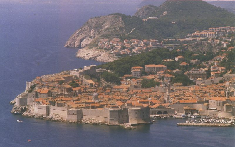 View of Dubrovnik